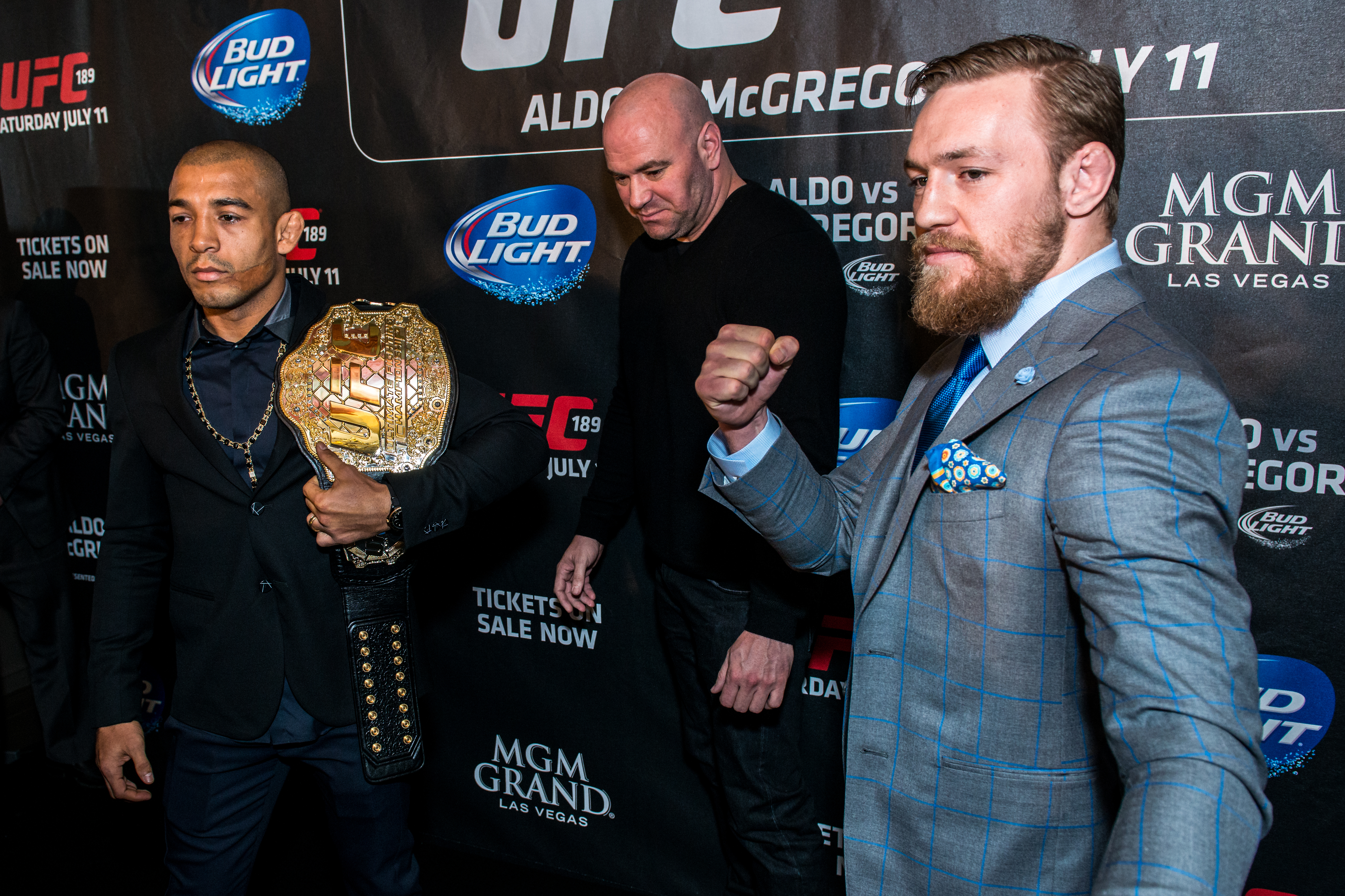 (From left to right) José Aldo, Dana White and Conor McGregor